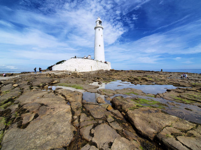 St Mary's lighthouse from shore. Inactive since 1984.